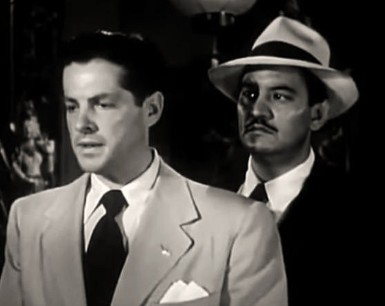 Robert Cummings (left) & Alex Montoya in The Chase - cropped screenshot